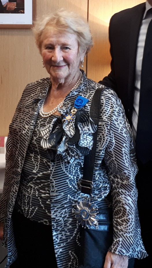 Antonine Maillet promoted to rank of Grand Officer of the National Order of Merit, cropped.